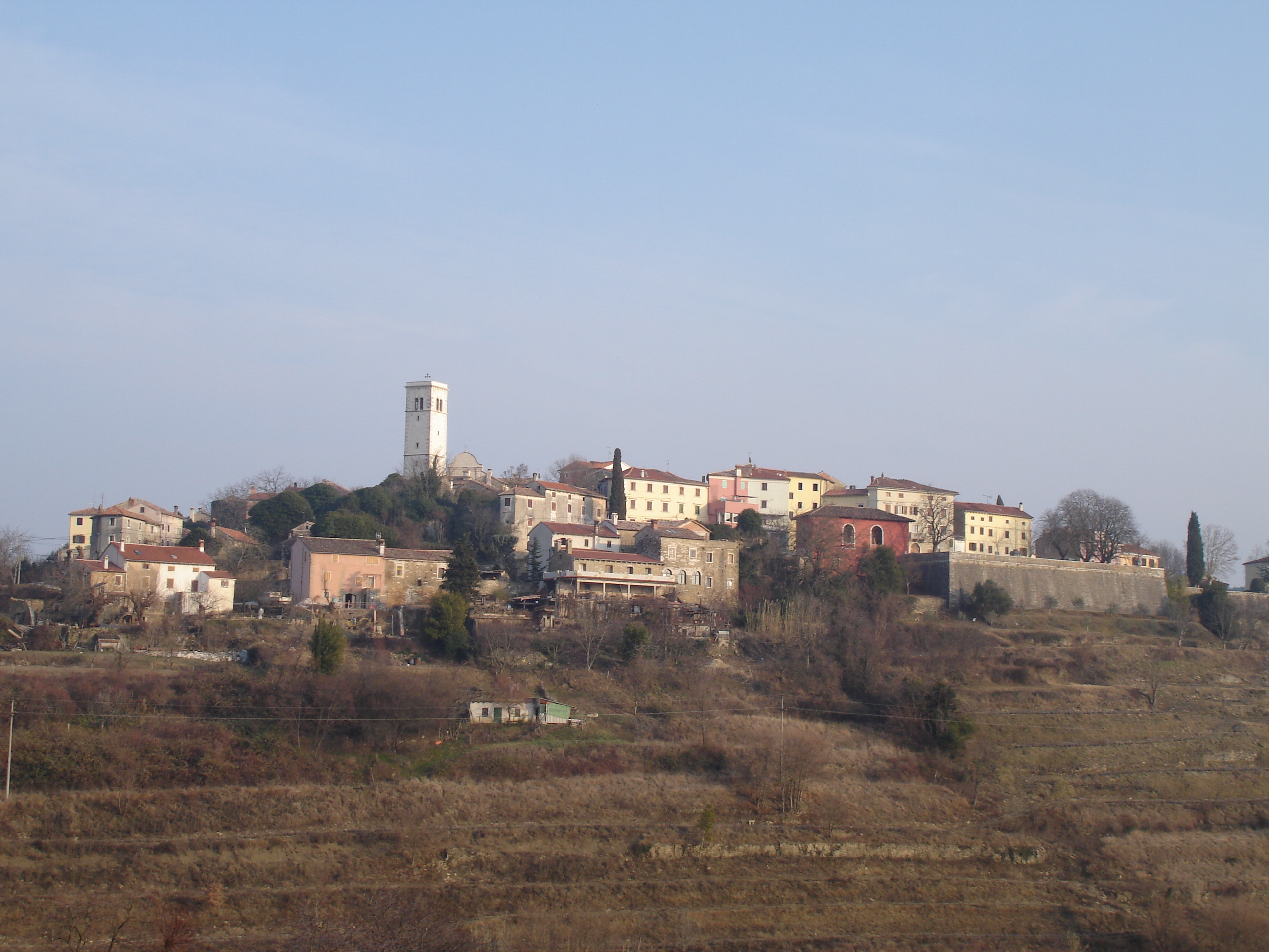 Oprtalj, Croatia, north-west panoramic view